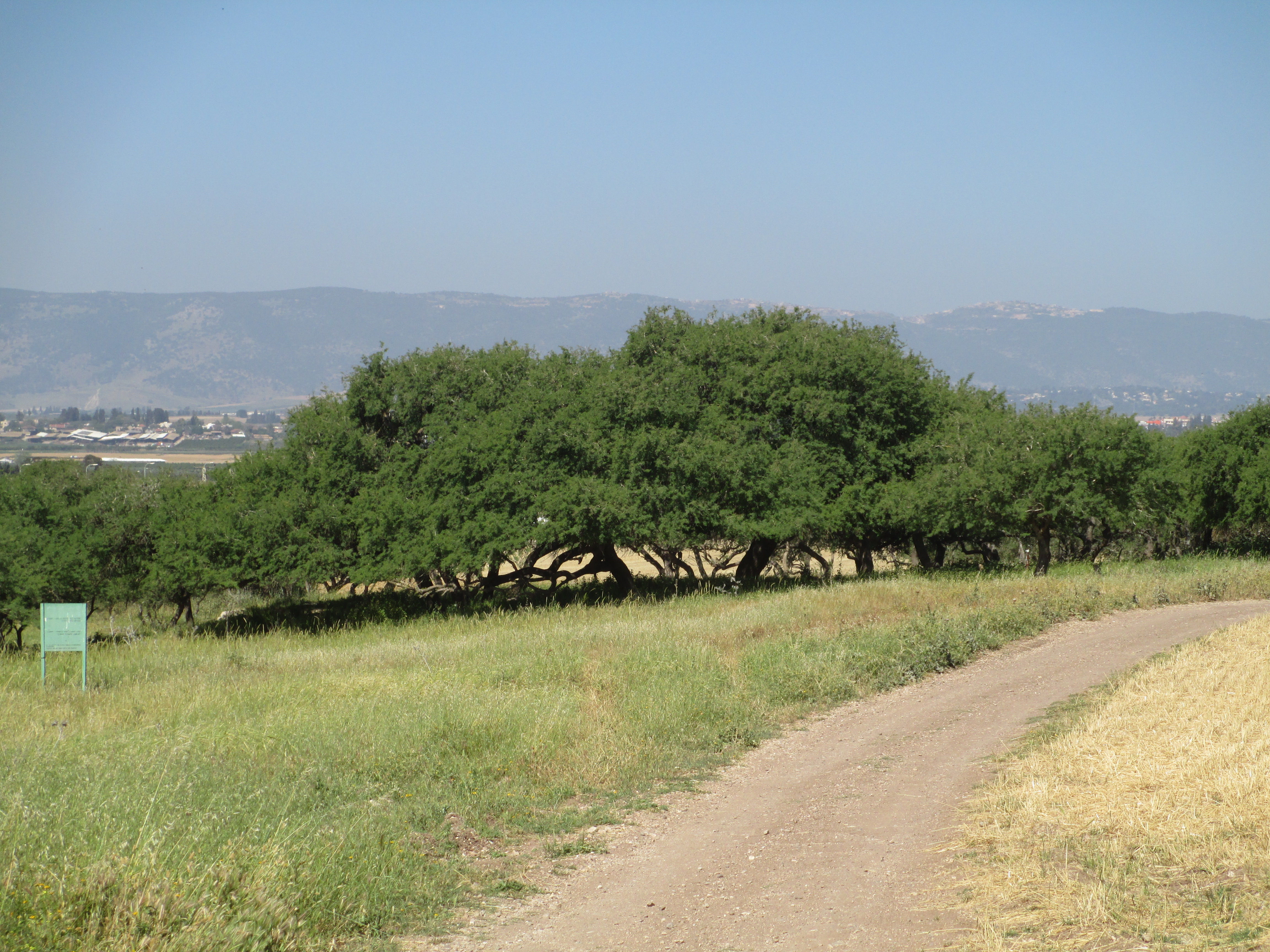 Acacia albida nature reserve in Tel Shimron